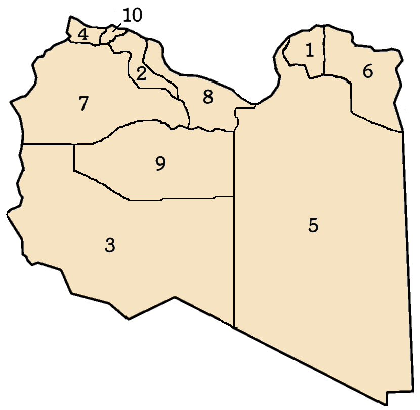 Map of Libya showing outlines of the ten governorates from 1963-1970. Very slightly changed boundaries 1970-1983. The governorates are number alphabetically in English.